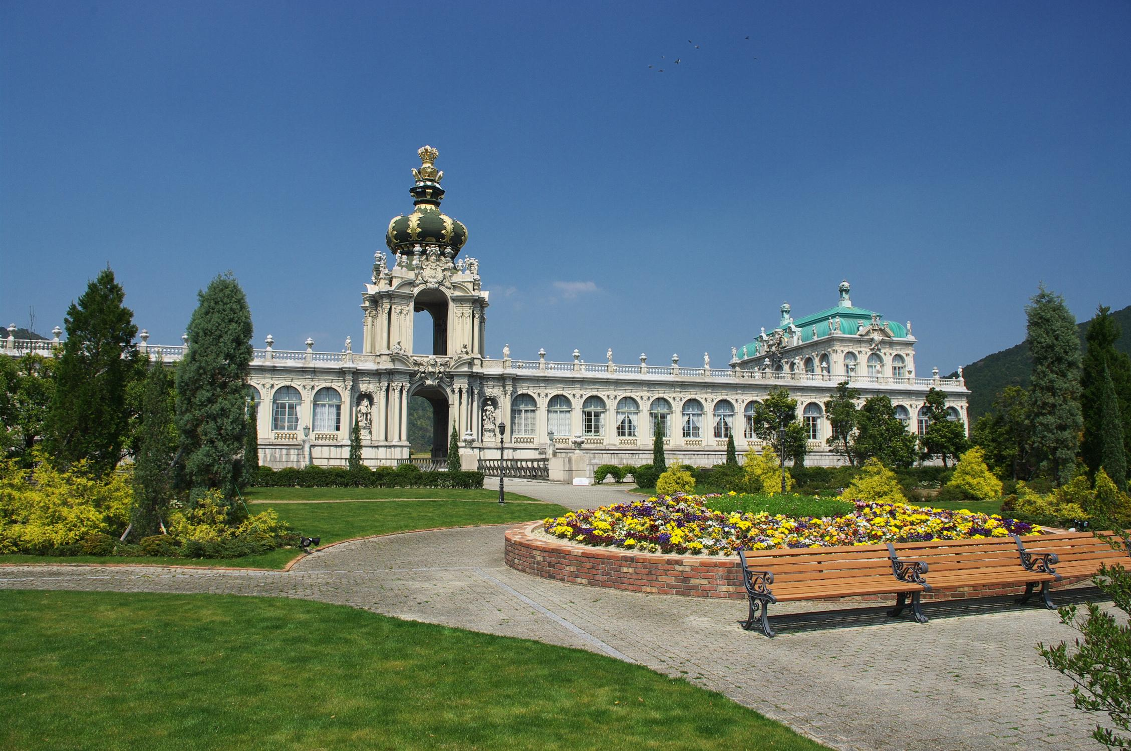 Replica of Zwinger Palace (original in Dresden, Germany) at the theme park "Arita Porcelain Park", Japan.